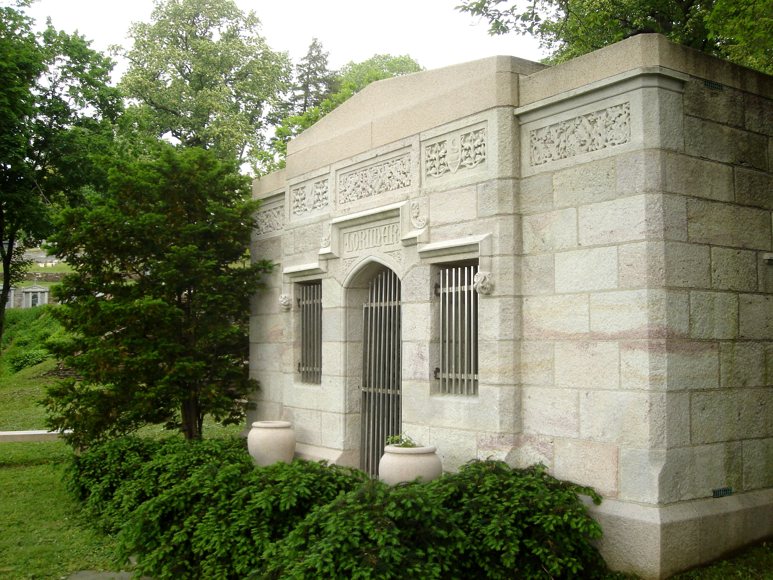 Tomb of George Lorimer in Laurel Hill cemetary in Philadelphia